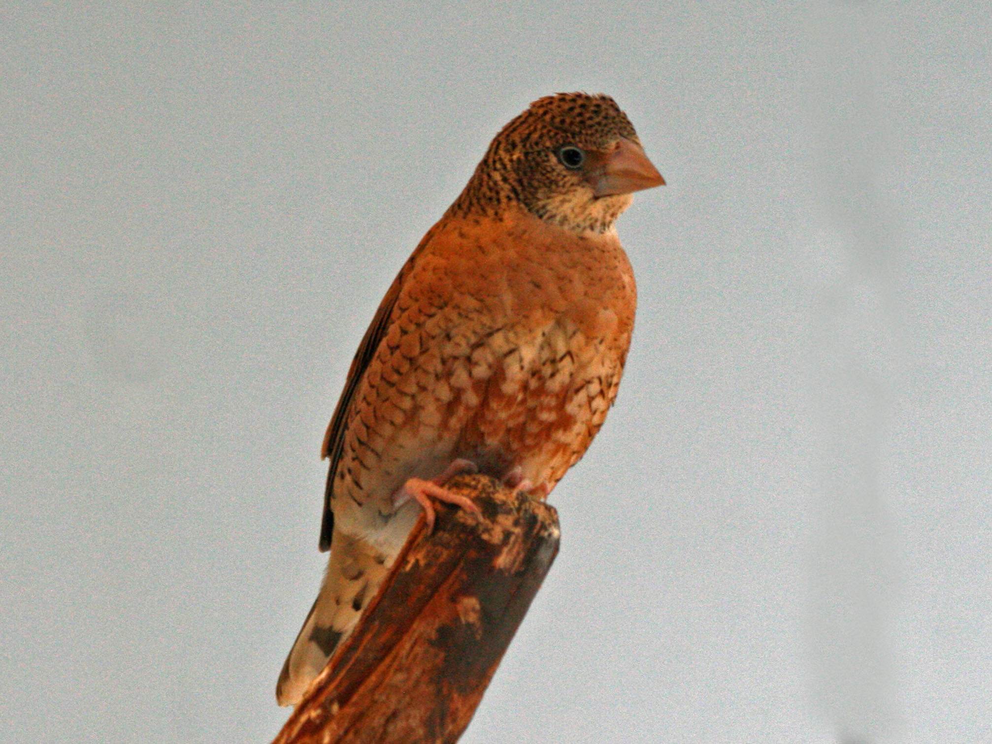 Female Cut-throat Finch (Amadina fasciata) - National Aviary in Pittsburgh, Pennsylvania.